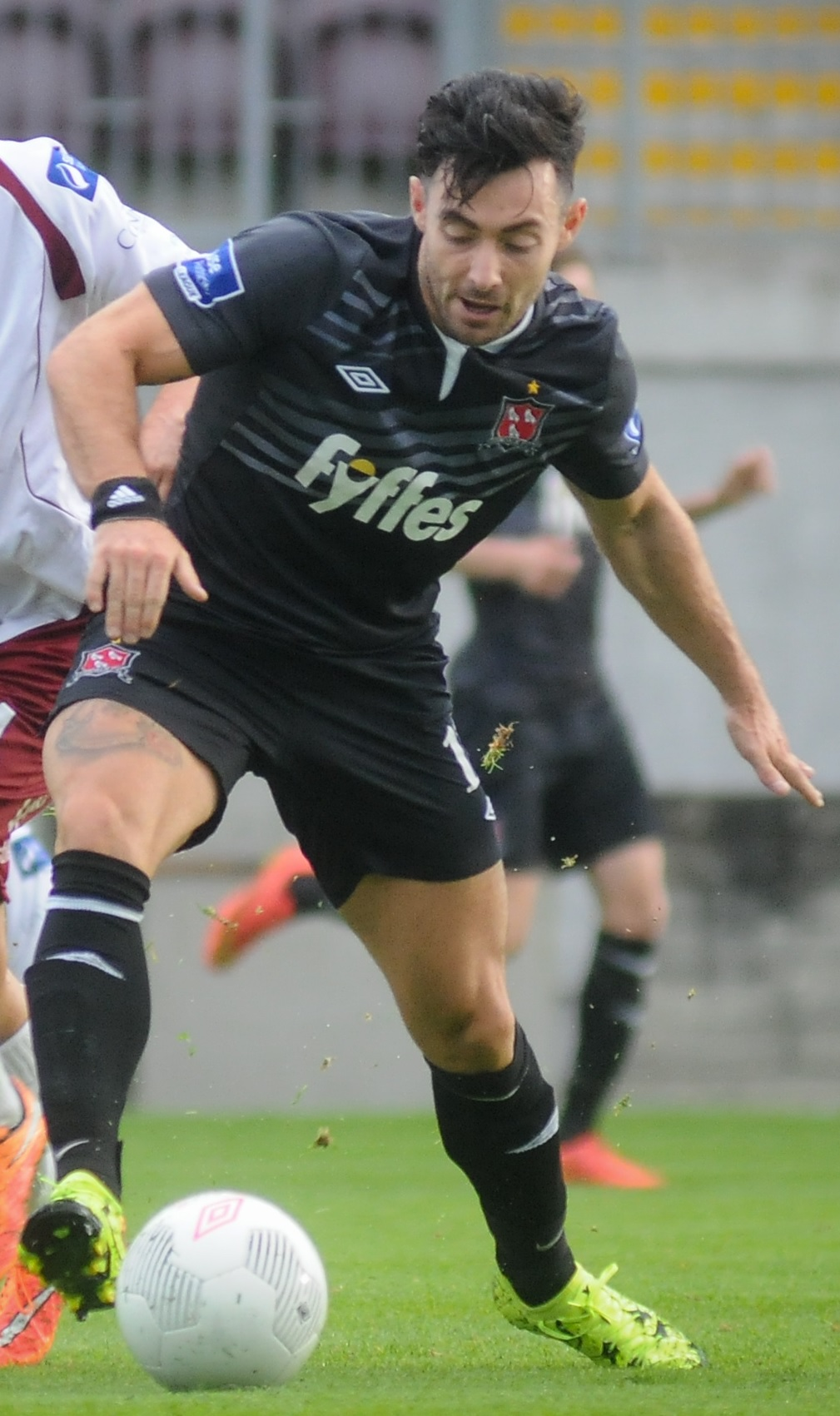 Richie Towell in action for Dundalk F.C.